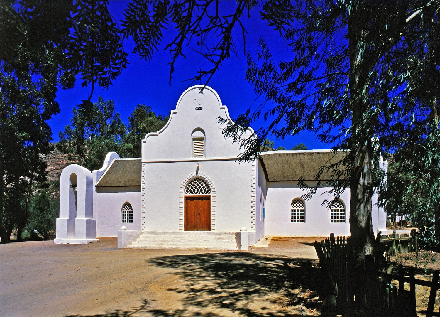 This media shows a South African Protected Site with SAHRA file reference 0000000000.